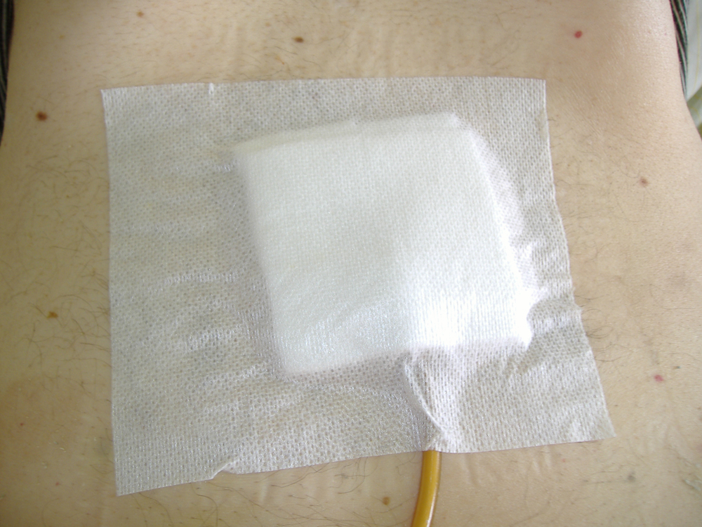 Percutaneous endoscopic gastrostomy-tube